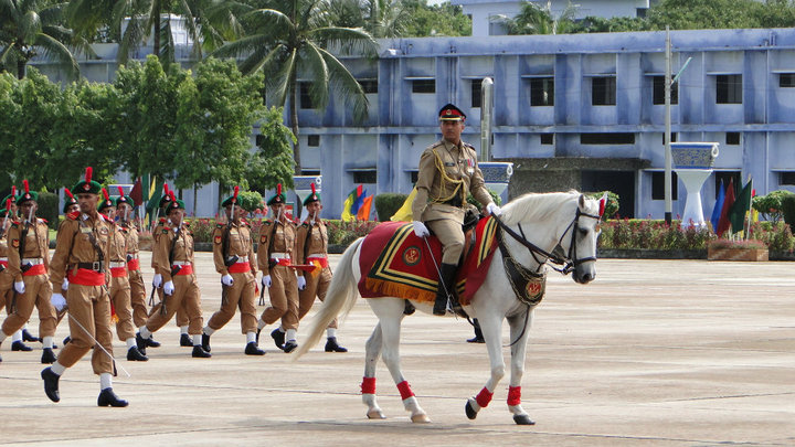 Adjt BMA